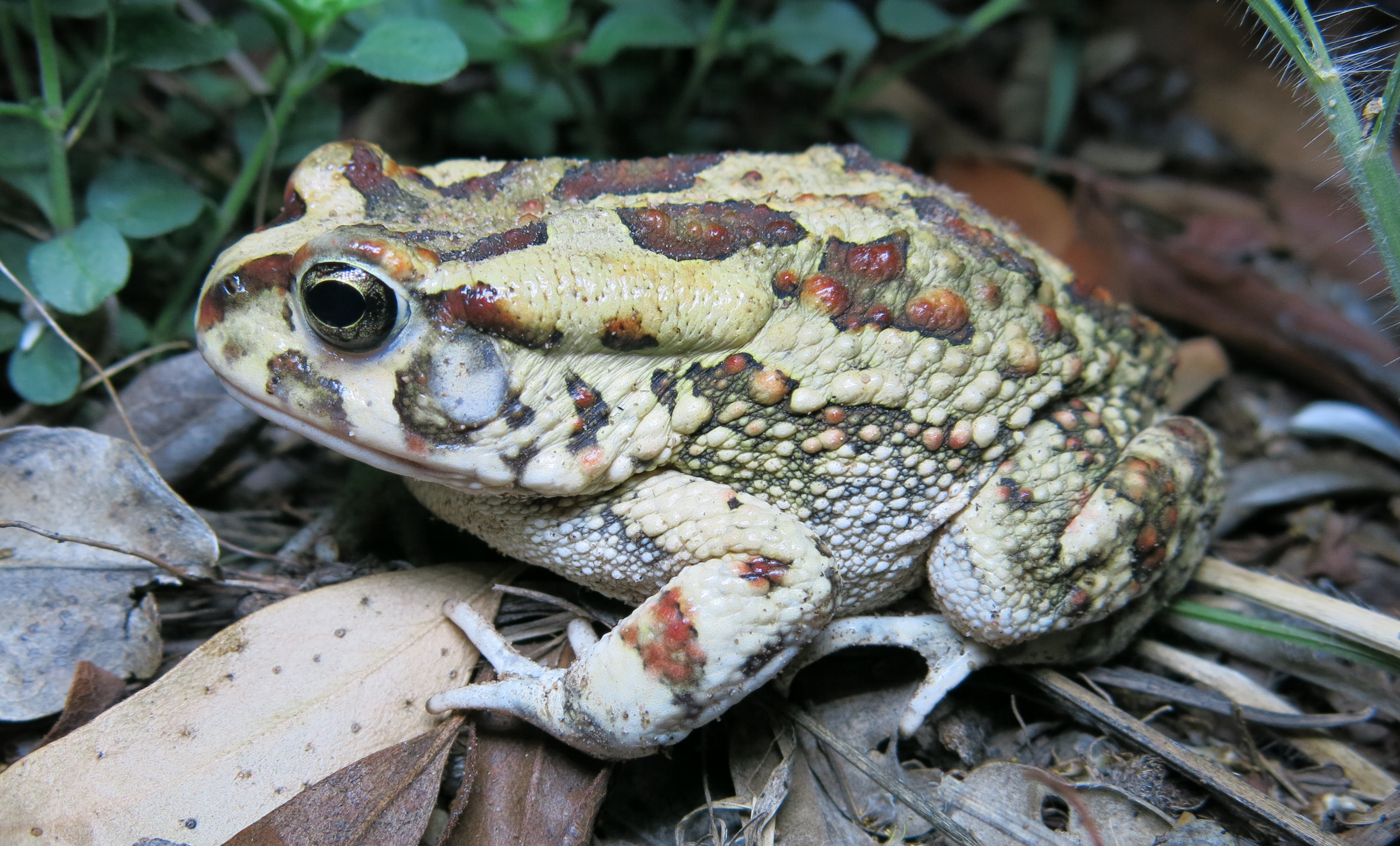 Amietophrynus garmani, Limpopo, South Africa